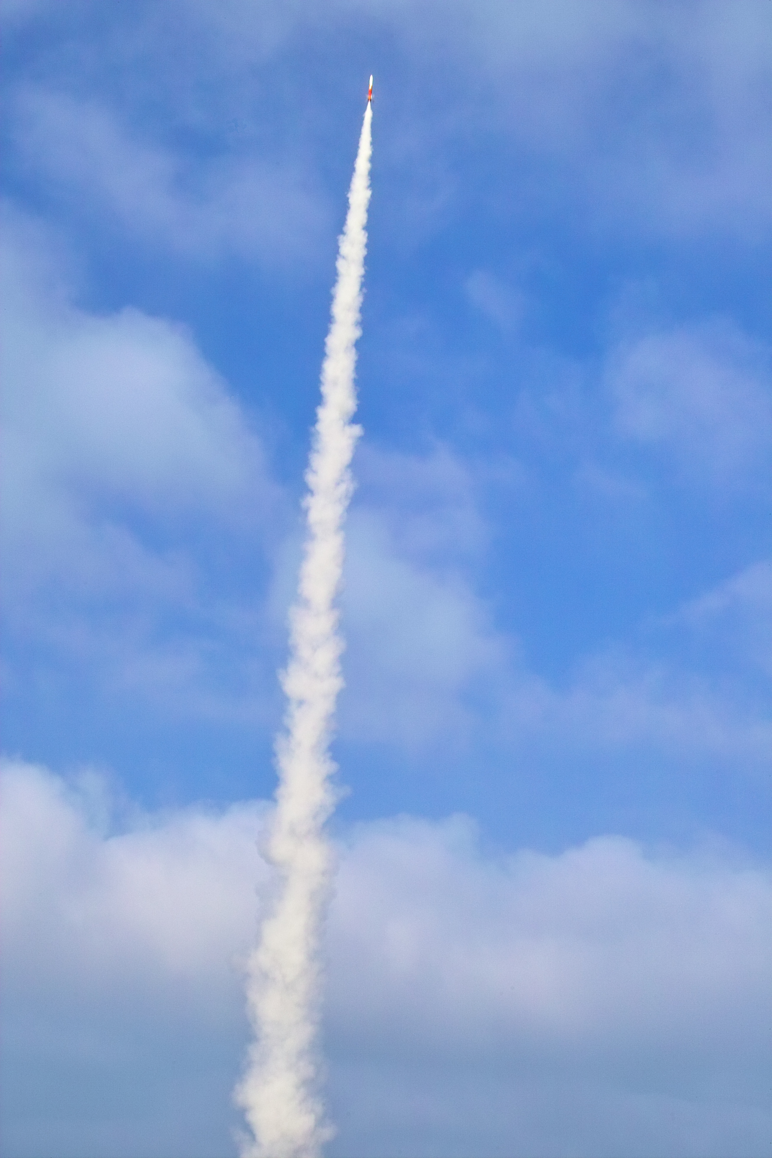 A rocket in the sky produced by APPL, Dep. of Mechanical Engineering NCTU, Taiwan. The first time in Taiwan that academic rocket launch higher than hundred meters.